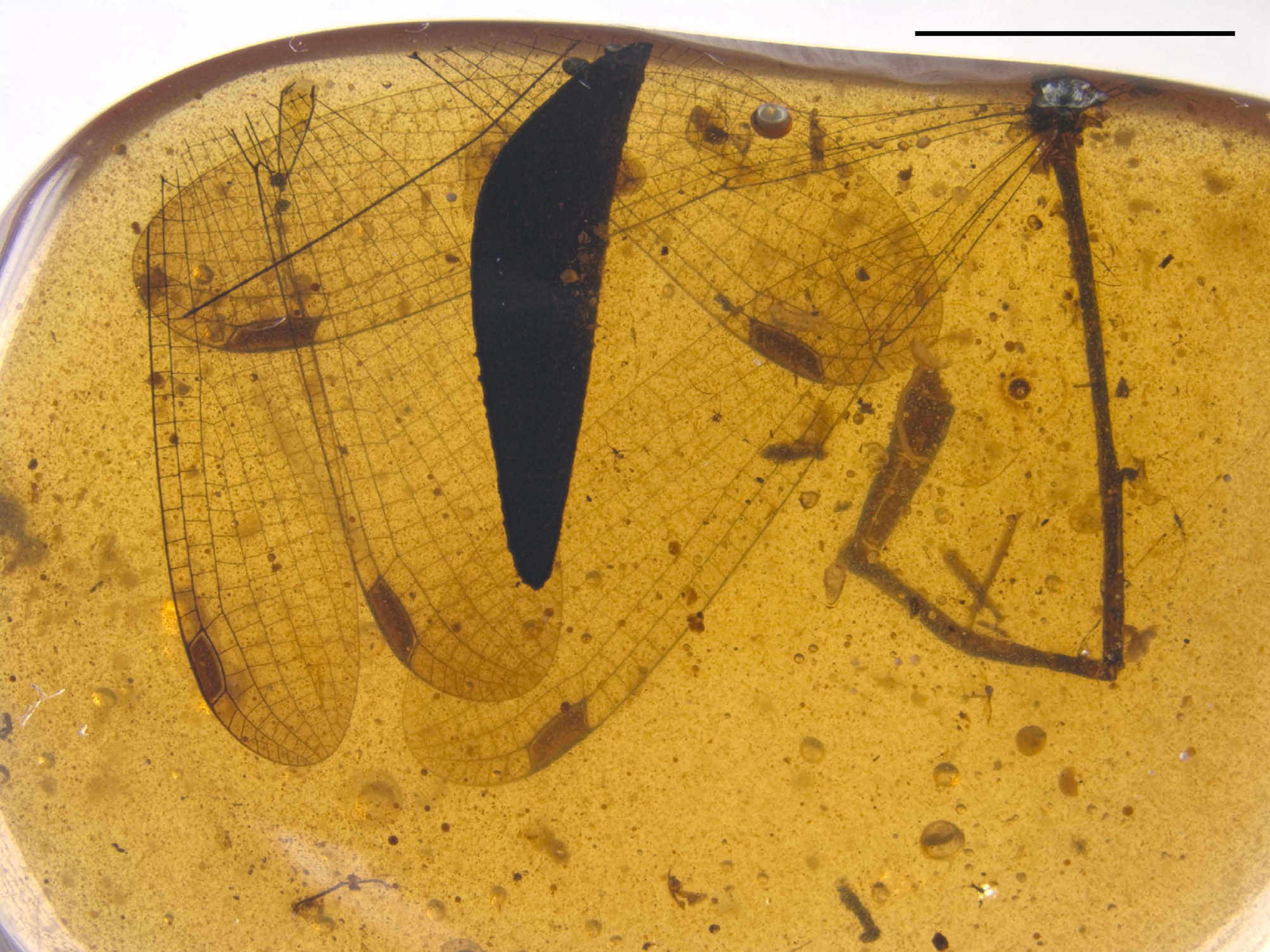 Photograph of complete Burmese amber piece SMNS Bu-158 with holotype of Burmagrion marijanmatoki Scale bar = 5 mm.